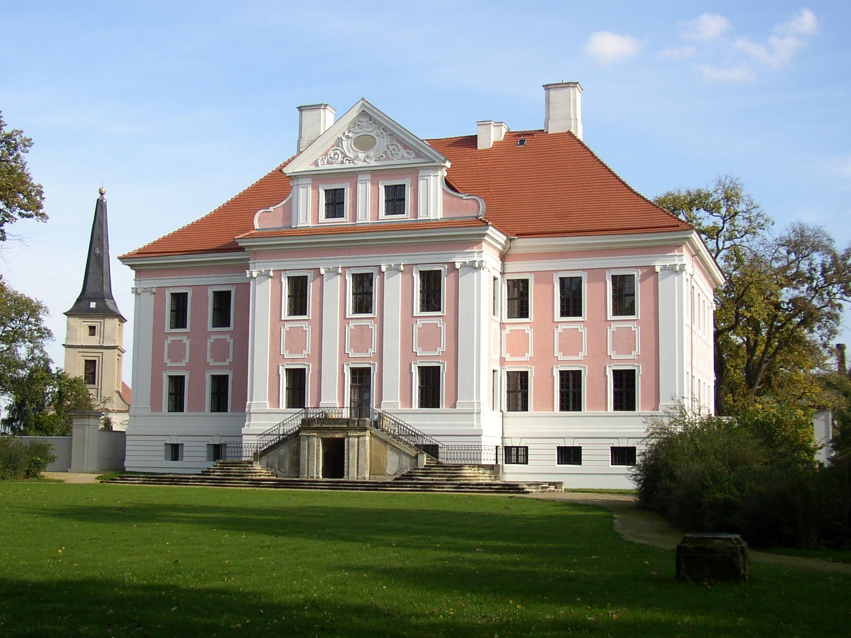 Church and palace in Groß Rietz (municipality Rietz-Neuendorf) in Brandenburg, Germany